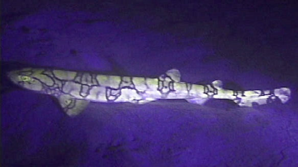 Chain catshark (Scyliorhinus retifer) fluorescing under blue light.